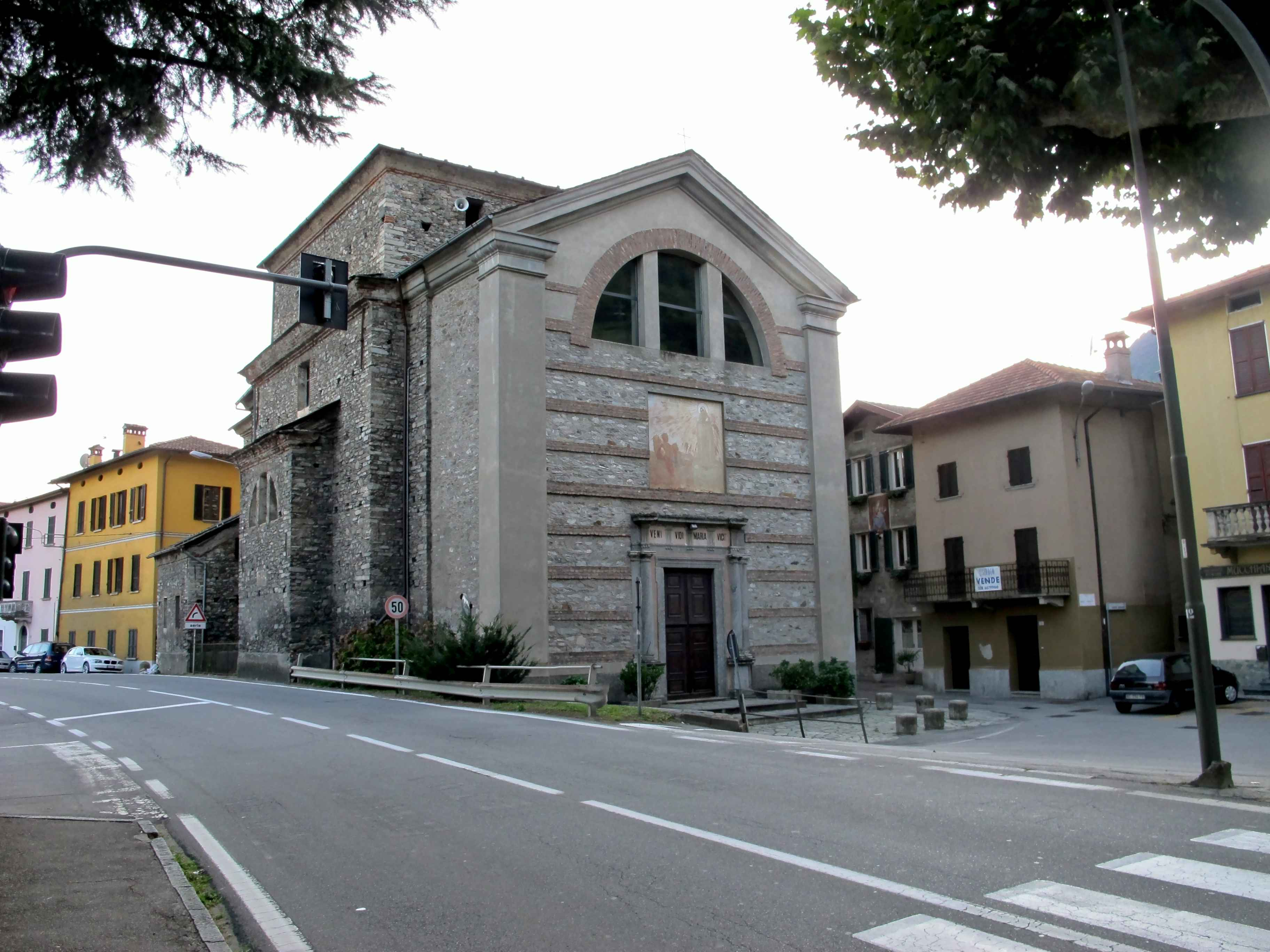 Italy, Lombardy, Gera Lario, pilgrimage church Nostra Signora di Fatima